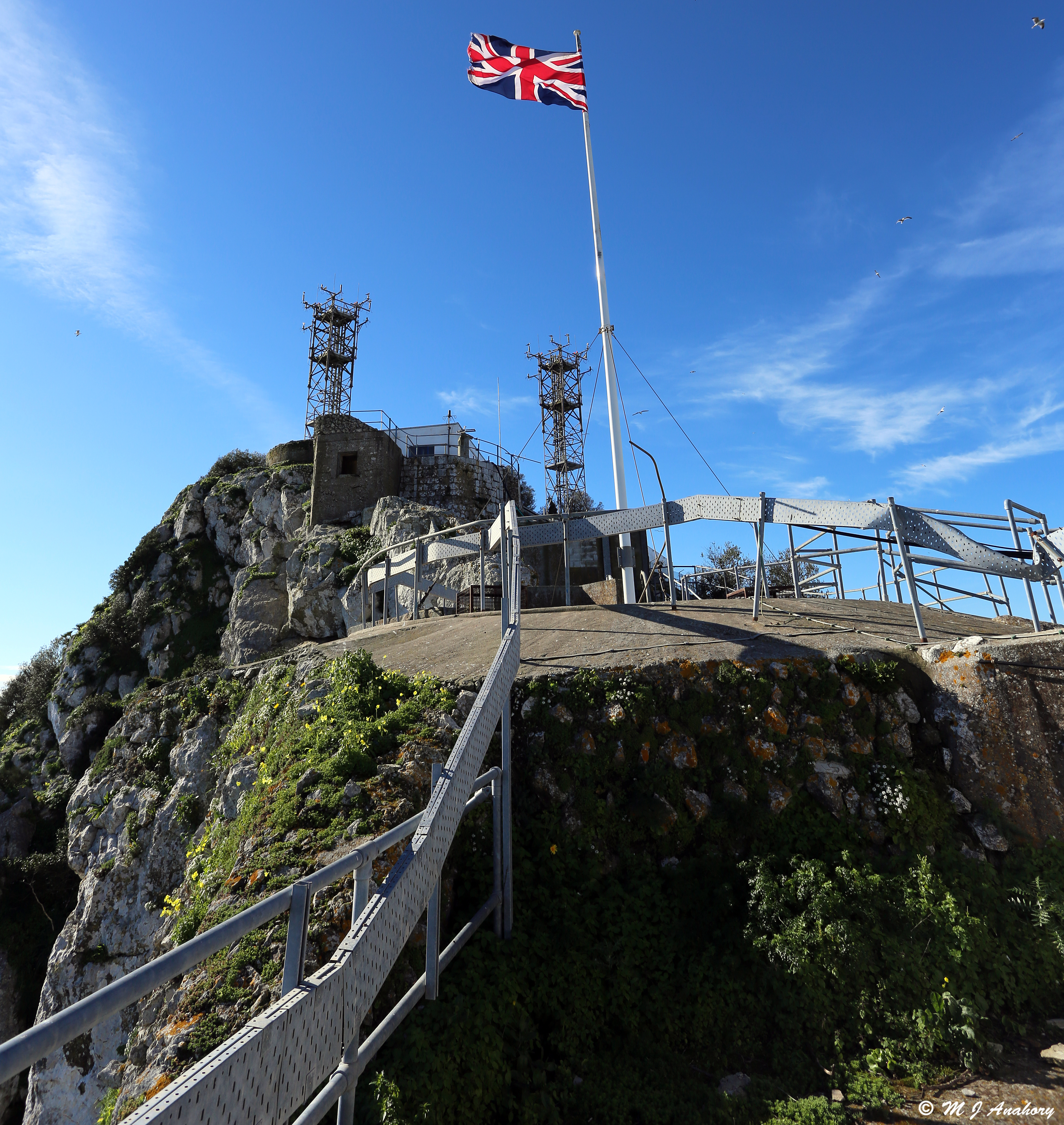 Top of the Rock Union Jack Flag. Rock Gun Battery is in Gibraltar, the British Overseas Territory at the southern end of the Iberian Peninsula.The artillery battery is located 411.5 metres (1,350 ft) up the North Face of the Rock of Gibraltar, at the northern end of the Gibraltar Nature Reserve, above Green's Lodge Battery. Photo taken with kind permission of Fortess HQ, Gibraltar.